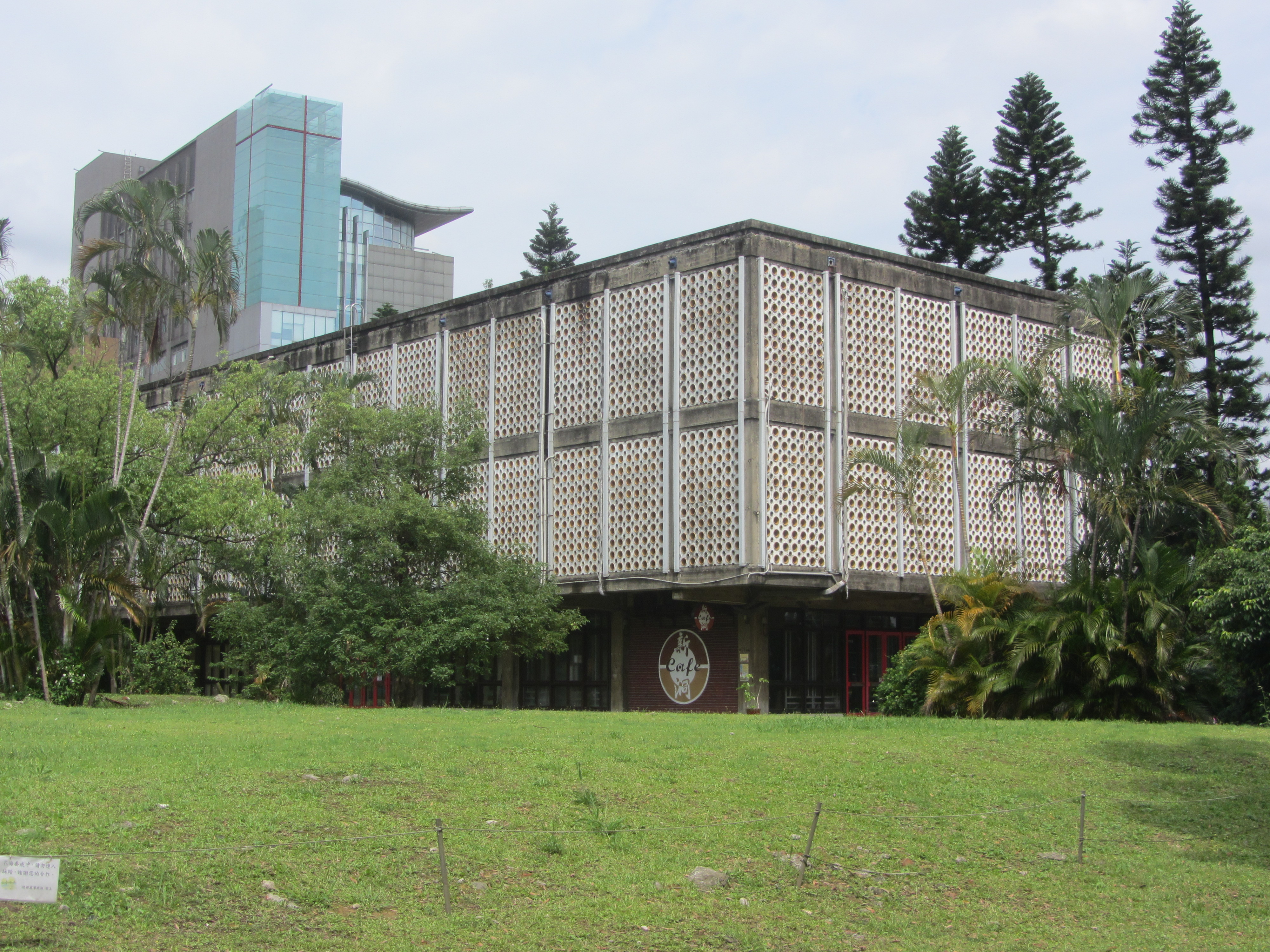 NTU Agricultural Exhibition Hall